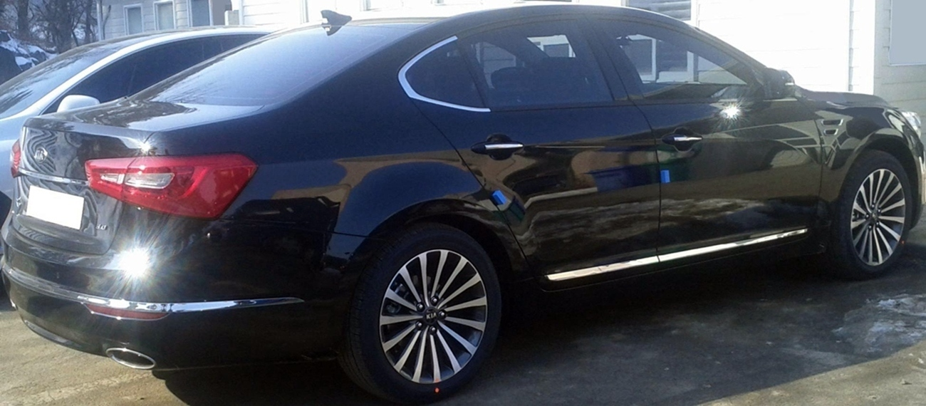 Kia The New K7